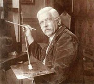 Bernardus Arps